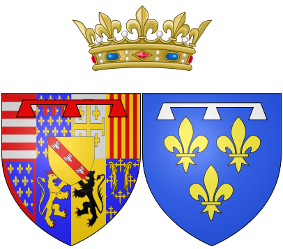 Coat of arms of Élisabeth (Isabelle) d'Orléans as Duchess of Guise